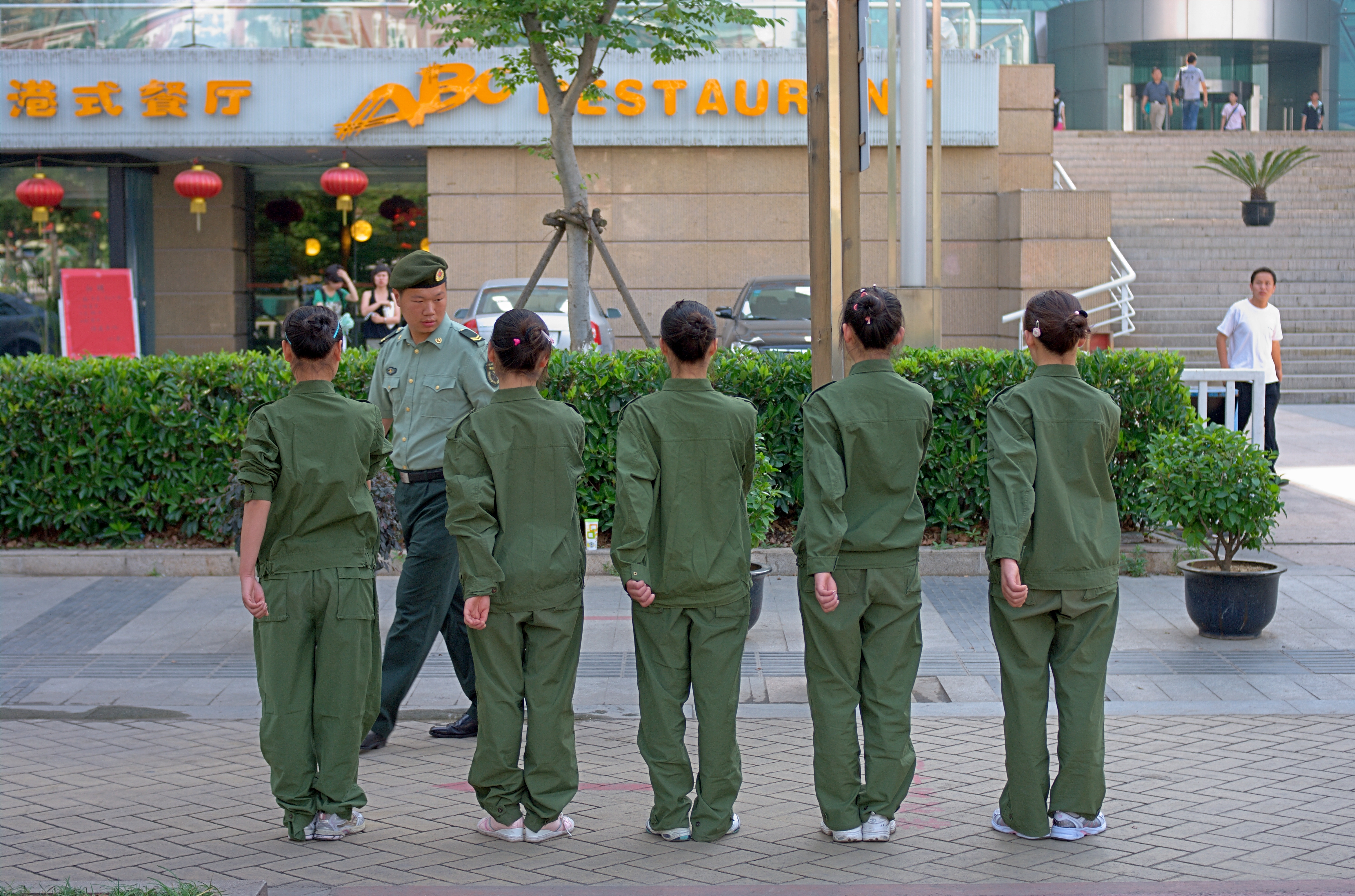 A man is walking and inspecting five young Chinese girls dressed as army. Nanjing, China.